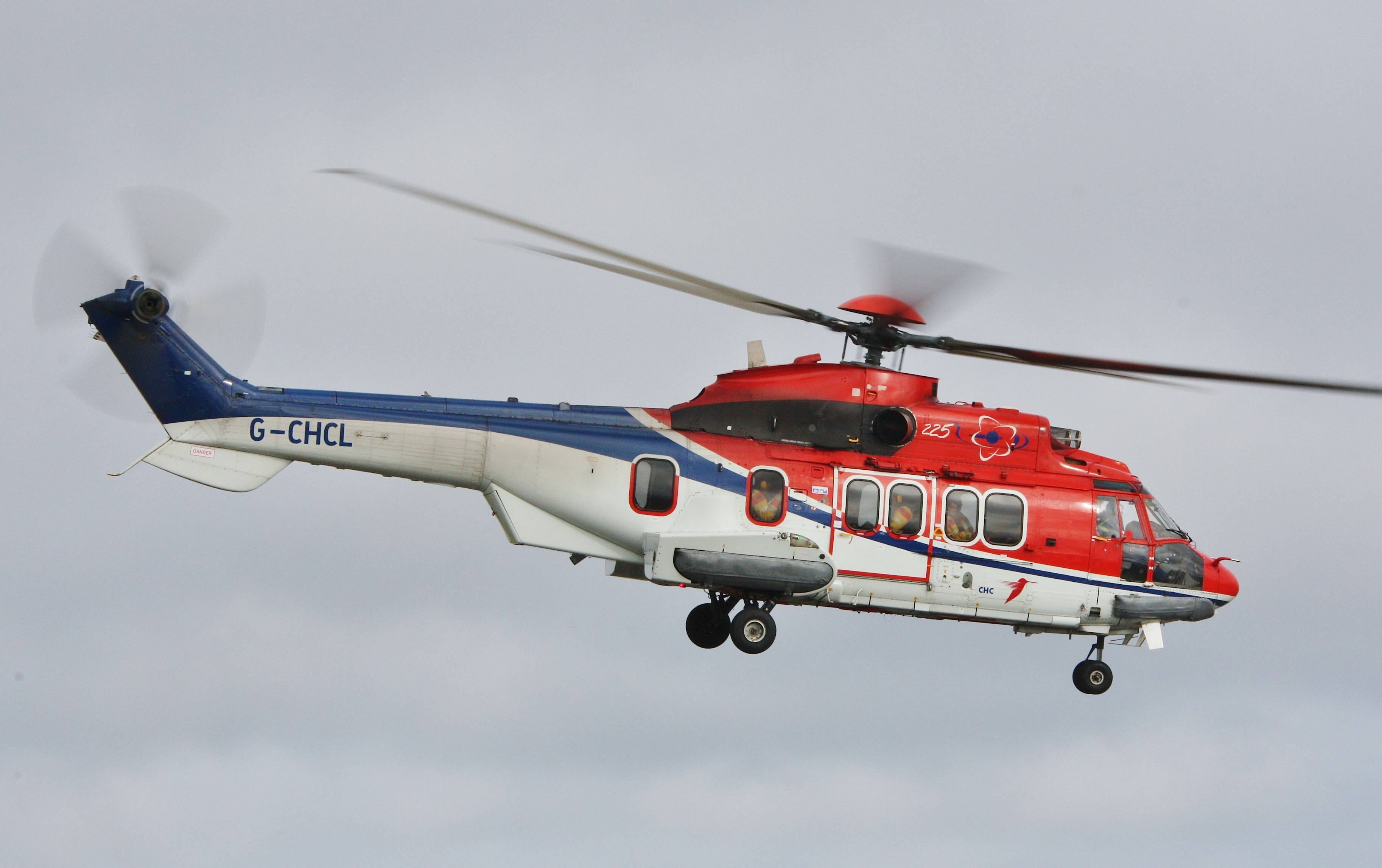 Puma EC225 G-CHCL